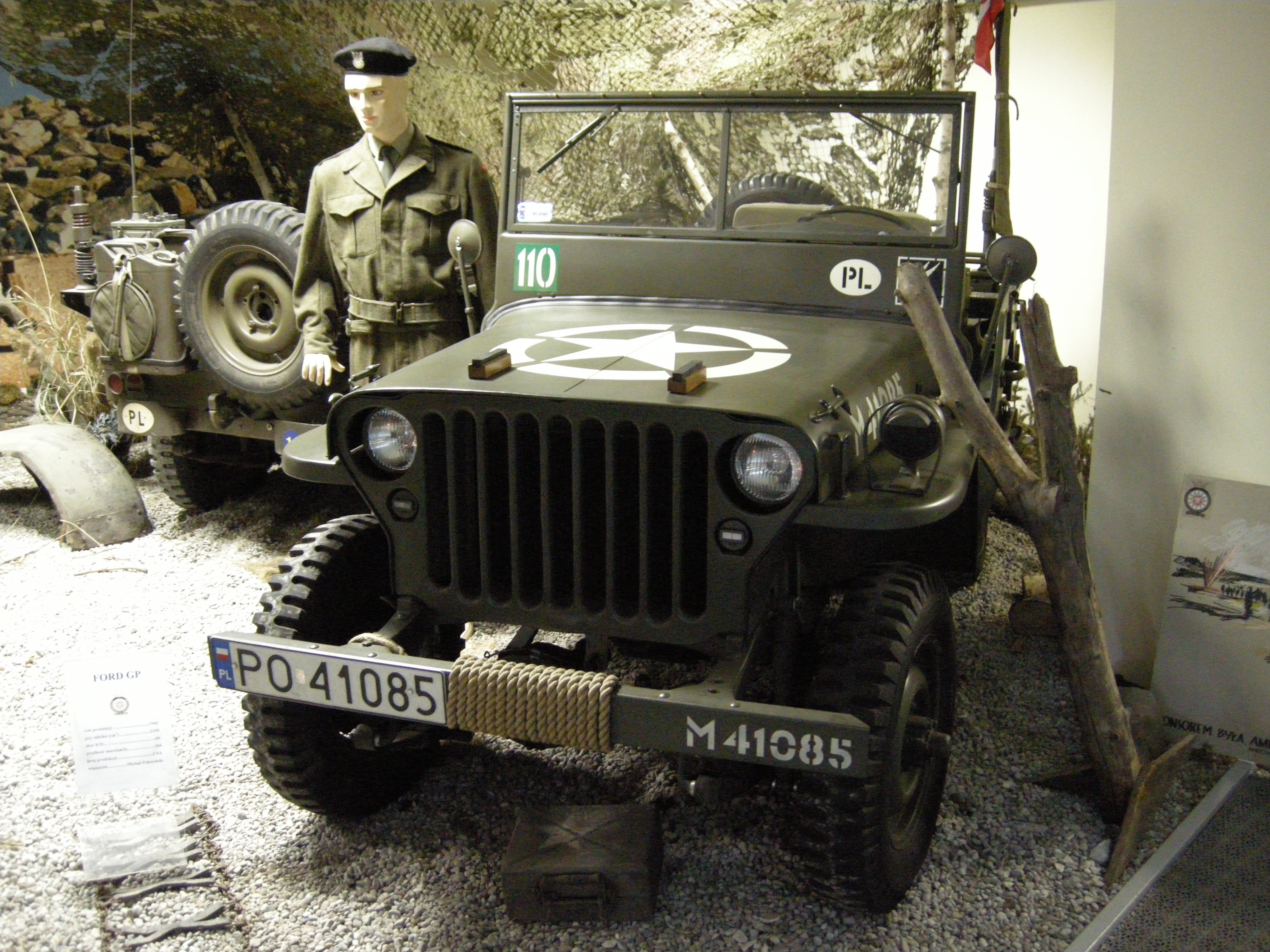 Willys Jeep